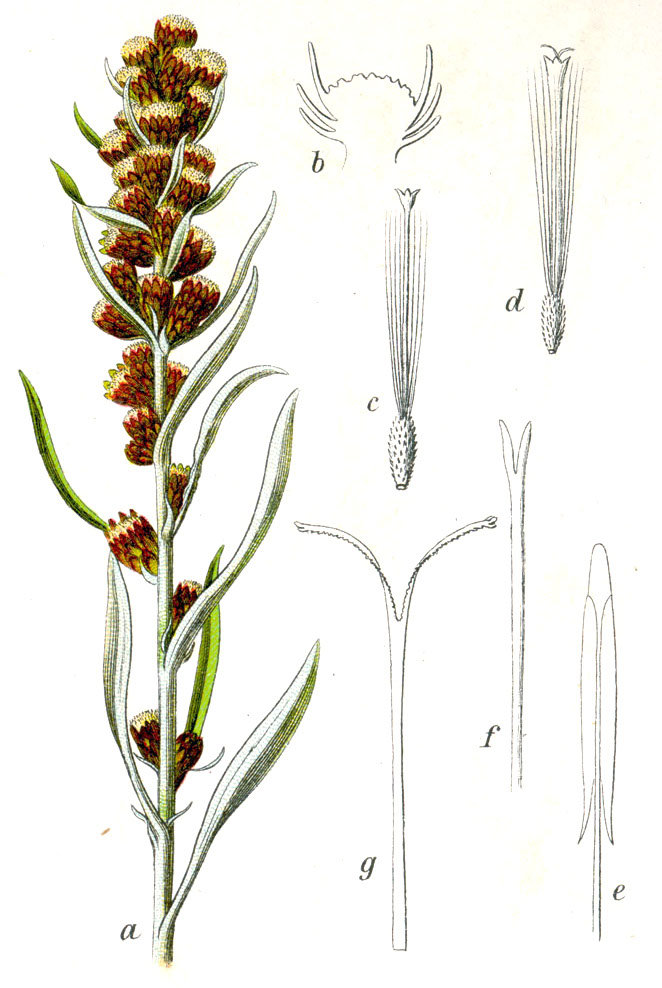 Gnaphalium sylvaticum L. Original Caption Wald-Ruhrkraut, Gnaphalium silvaticum